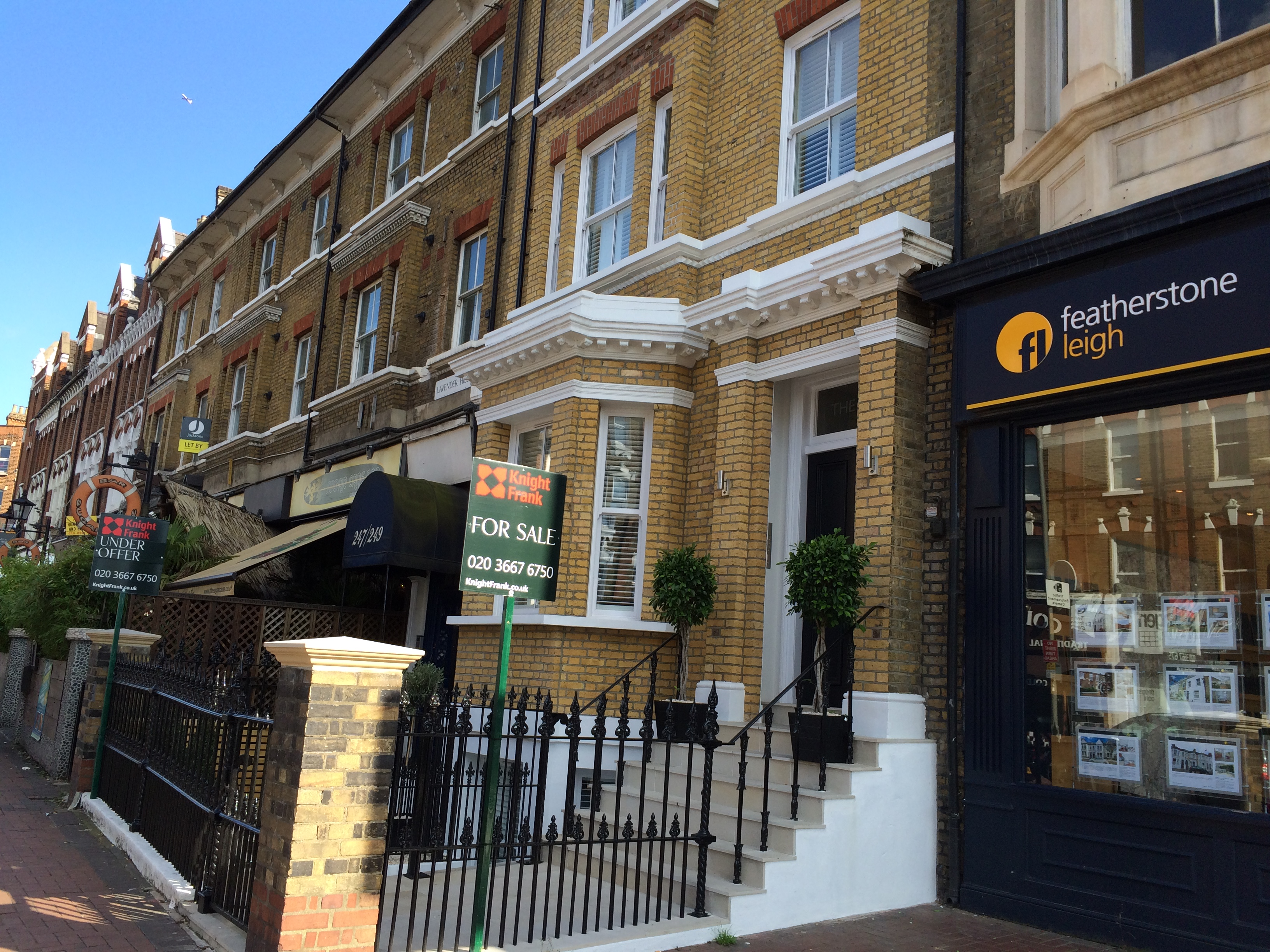 A view of several buildings adjacent to Lavender Hill with uses including two bars, a residential property and an estate agents, illustrating the rather mixed nature of adjacent property